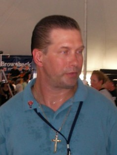 Actor Stephen Baldwin visited Ames, Iowa on August 11 to support Kansas Sen. Sam Brownback at the Iowa Republican Party's presidential straw poll. Image cropped by Magnus Manske 12:44, 30 September 2007 (UTC)